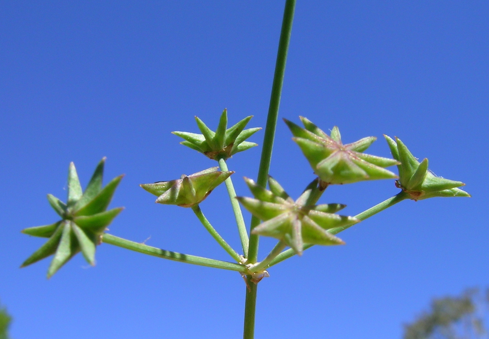 Flowerheads are panicles to 50 cm long with whorled branches. Flowers are about 6 mm wide, with 3 green sepals and 3 white or pink petals. Fruit are star-shaped when mature.